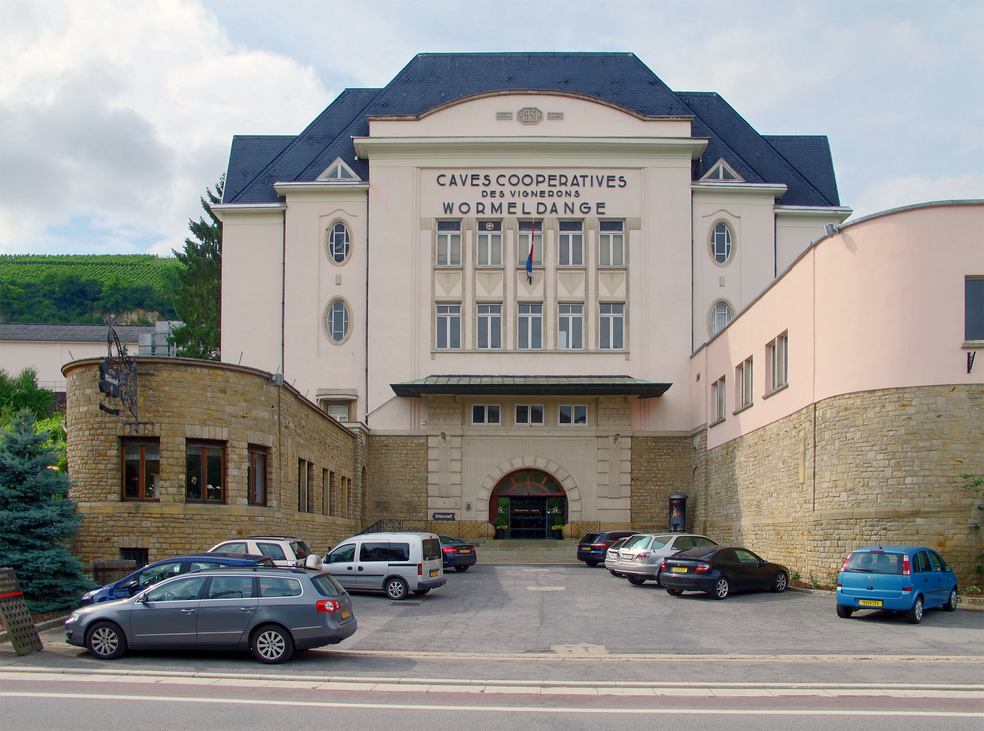 Wine cellar in Wormeldange, 115 route du VinLëtzebuergesch: Wäikellerei zu Wuermeldeng, 115 route du Vin